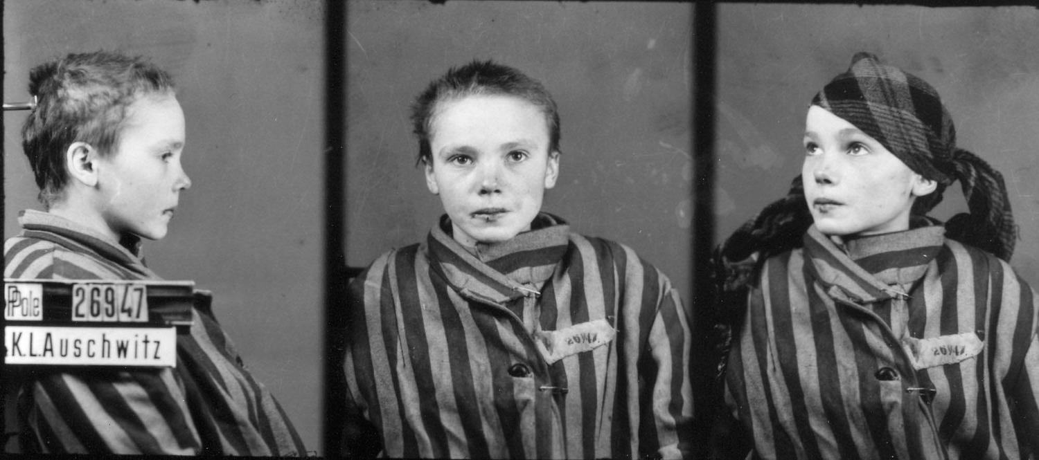 Czesława Kwoka, child victim of Auschwitz, as shown in her prisoner identification photo taken in 1942 or 1943. Photograph attributed to Wilhelm Brasse, taken in 1942 or 1943, exhibited at Auschwitz-Birkenau State Museum.